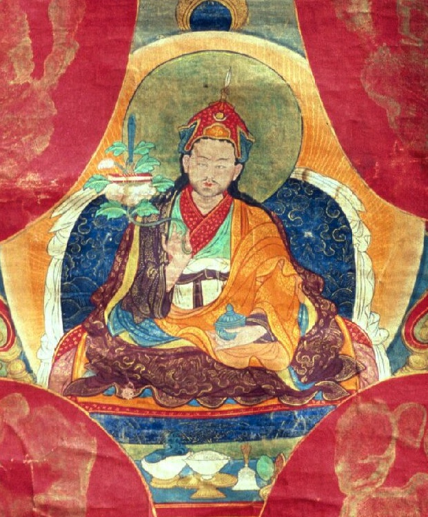 Chokgyur Lingpa, b.1829 - d.1870, Nyingma Terton